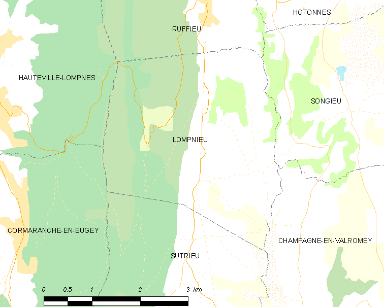 Map of French commune: Lompnieu Map commune FR insee code 01221.png